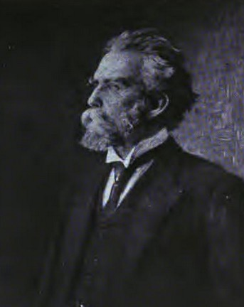 Image of a painting of SS Curry by Frank H Tompkins